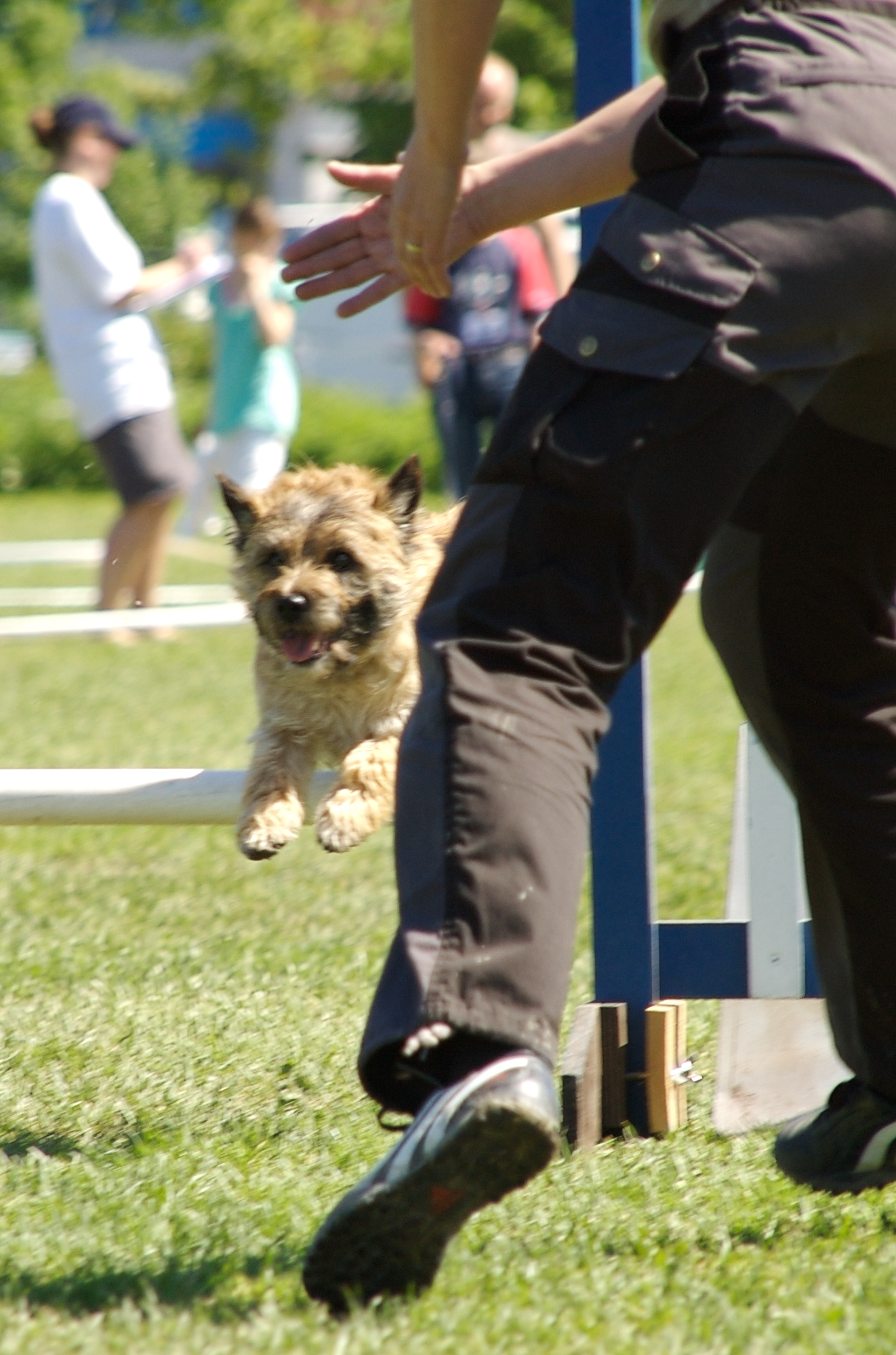 A Cairn Terrier in the dog agility ring.